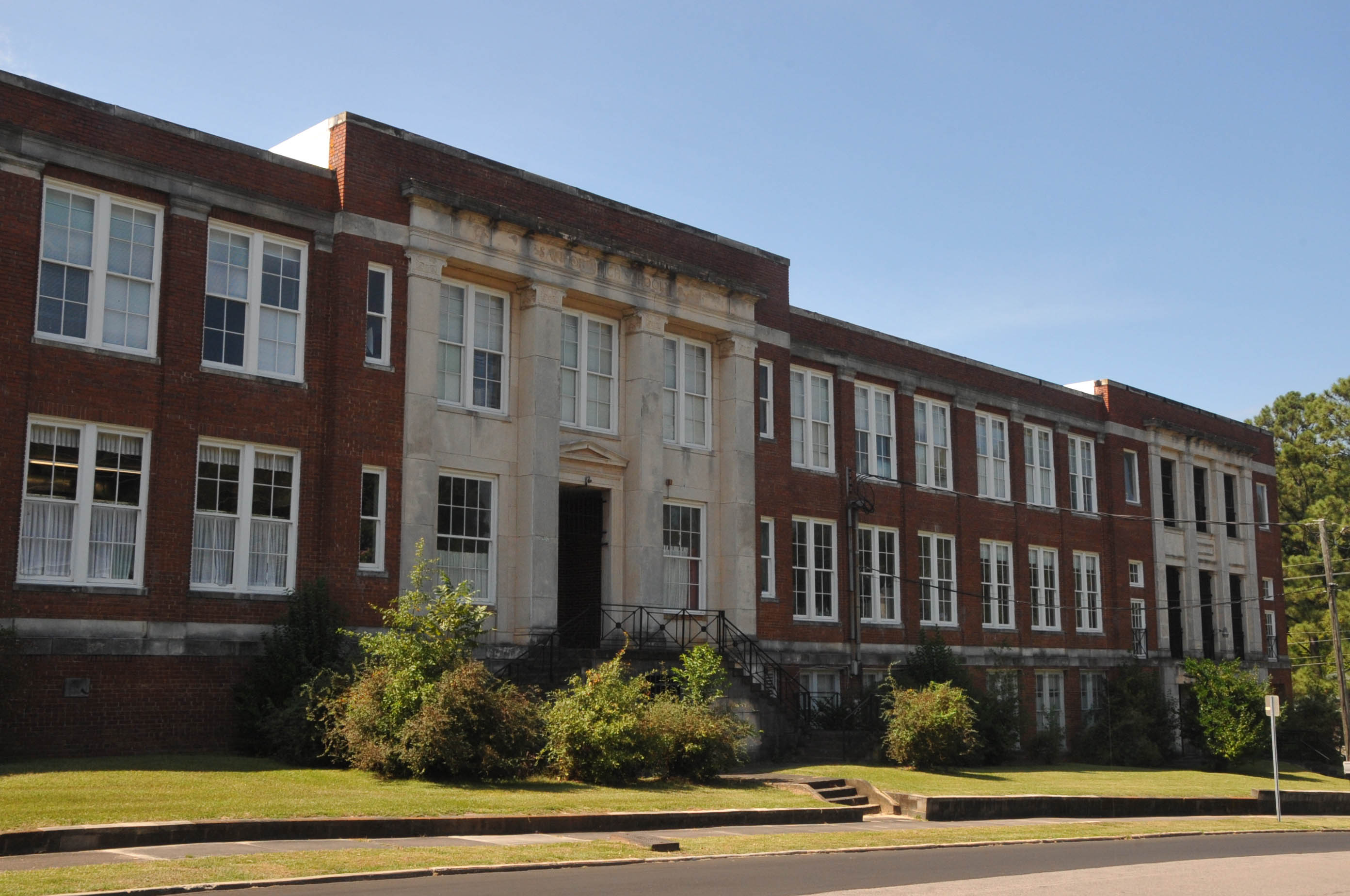 Built in 1924–1925; now an arts center.